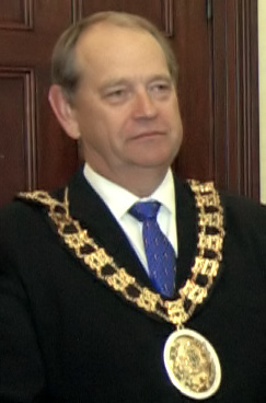 Michael Harbison, cropped and denoised from 051118-F-5586B-091 The Honorable Donald H. Rumsfeld (left), U.S. Secretary of Defense, is greeted by the Honorable Alexander Downer (right), Minister for Foreign Affairs for Australia, and Adelaide Town Councilors, on Nov. 18, 2005, prior to meeting with Australian governmental officials to discuss Asian security issues in the Adelaide Town Hall at the 17th and 18th Australian United States Ministerial Conference in Adelaide, South Australia, Australia. (U.S. Air Force photo by Master Sgt. James M. Bowman) (Released)